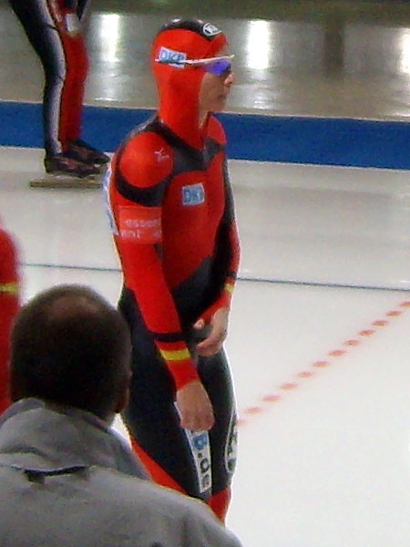 Pamela Zoellner (GER) befor 1000 meters world cup speedskating race in Berlin, Germany.